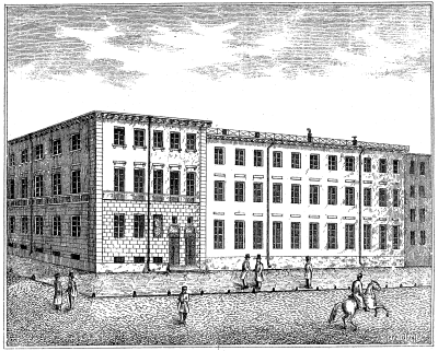 House for Sarepta's Society